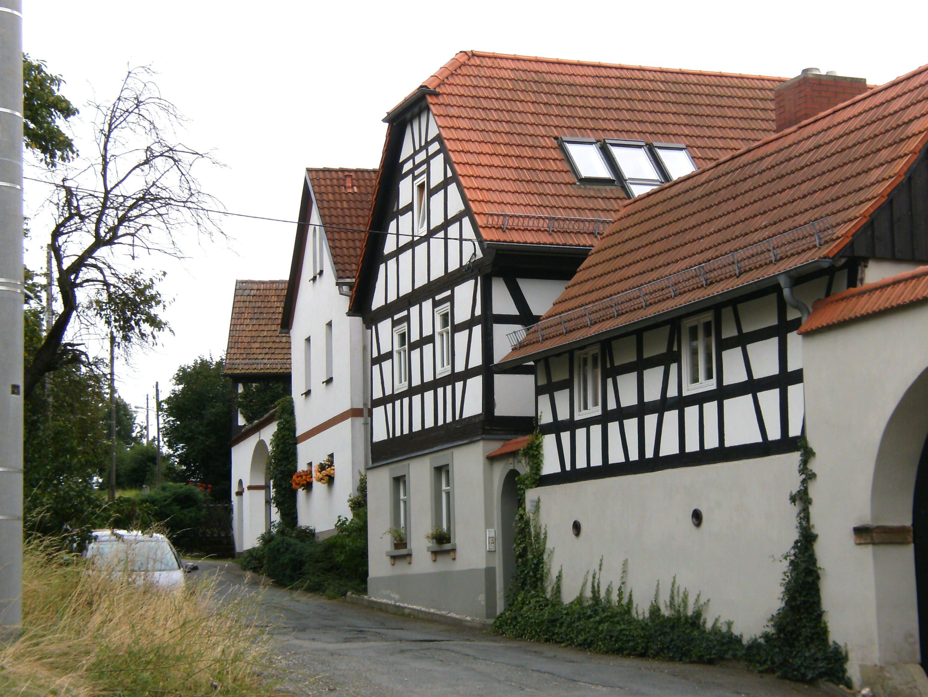 Lietzsch, quarterside farms in the village.